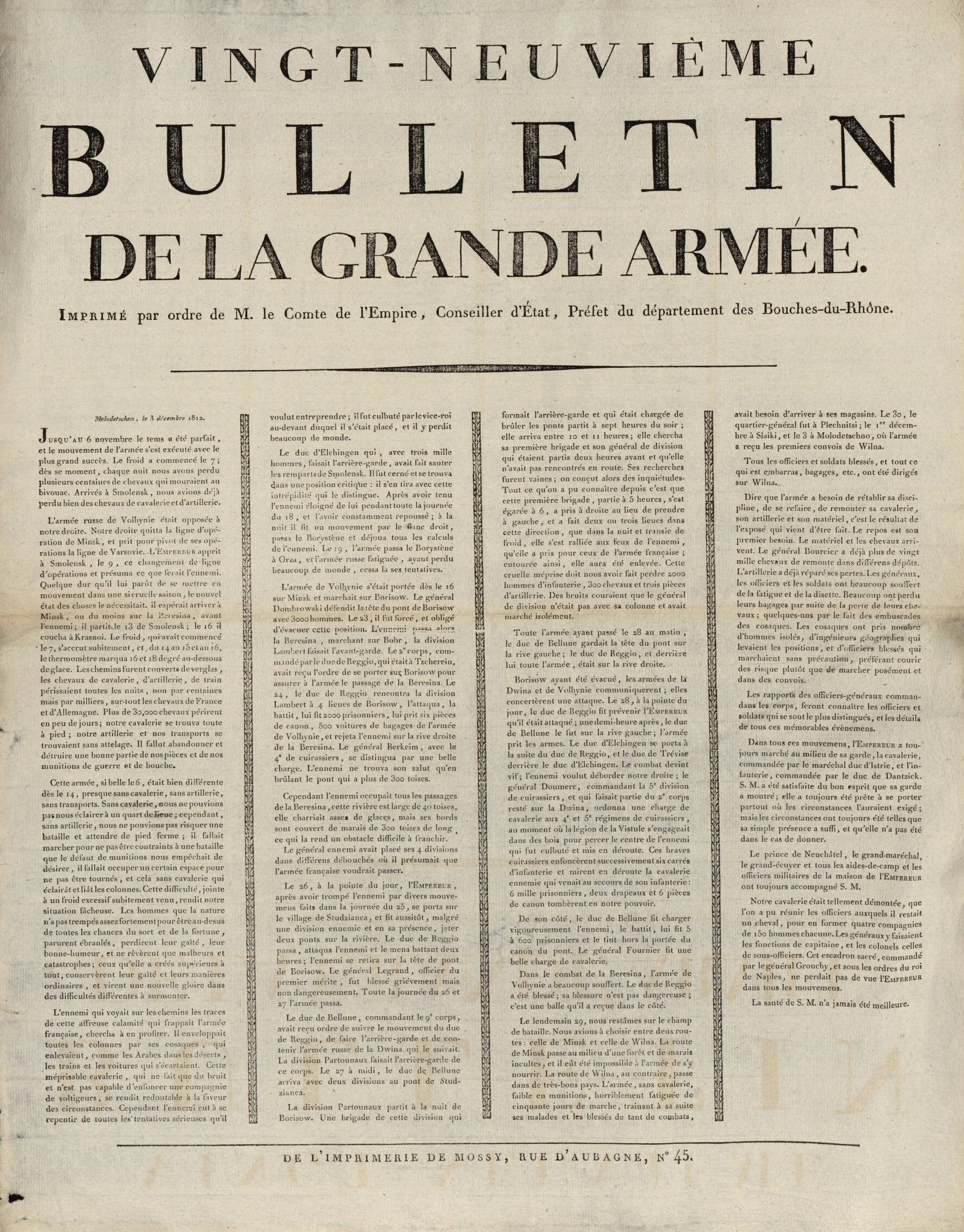 29th bulletin of the Grande Armee